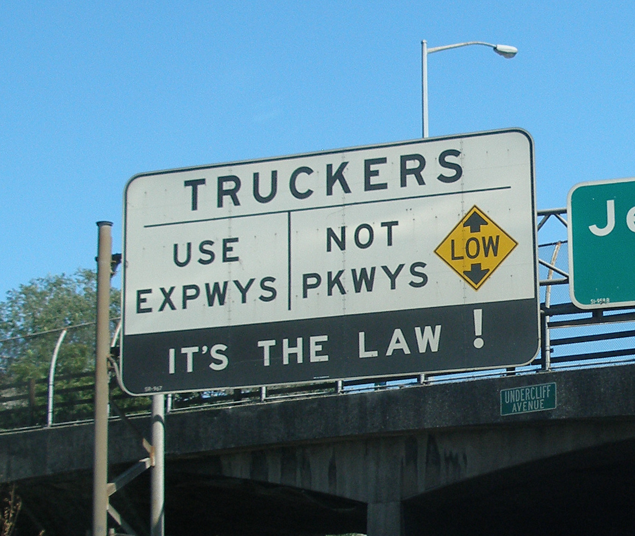 Sign in New York City on the Cross-Bronx Expressway reminding truckers to stay off parkways. Photographed by user Coolcaesar on September 2, 2007.